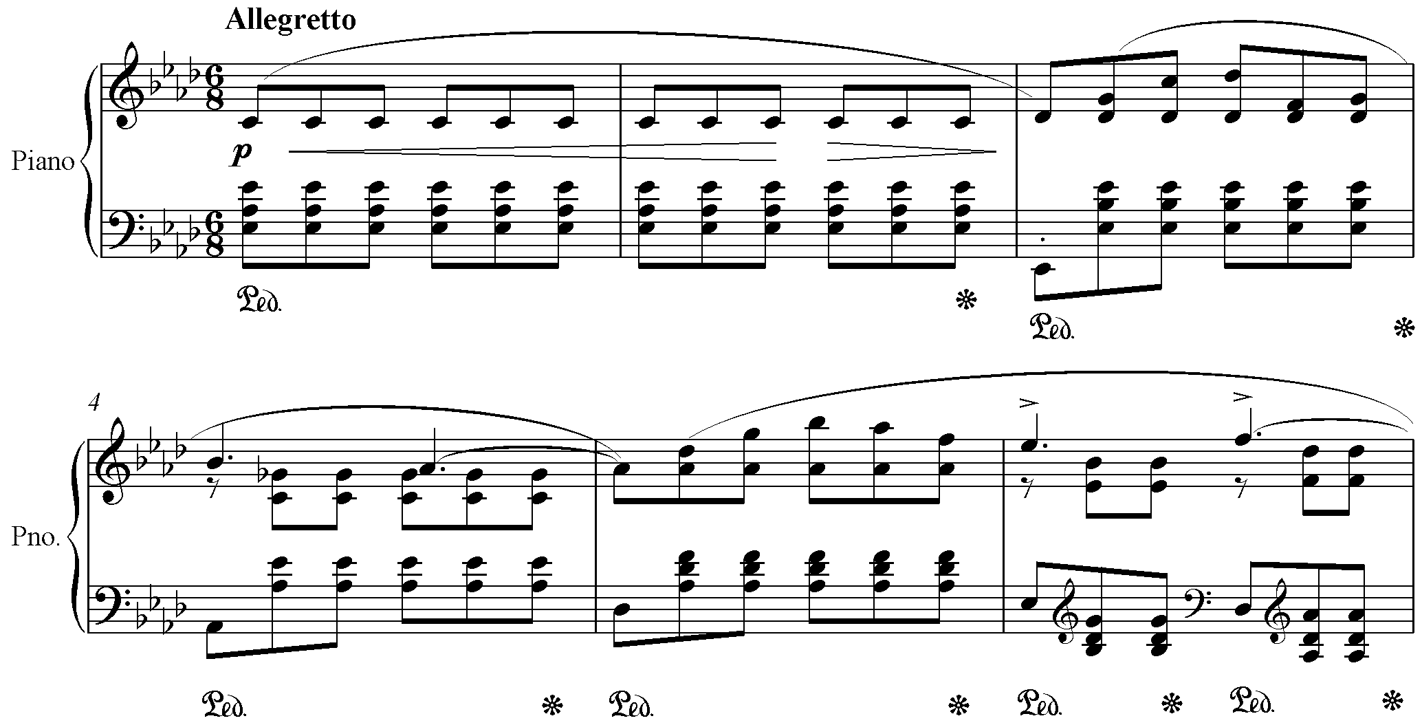 6 first bars of Chopins prelude 17 op. 28